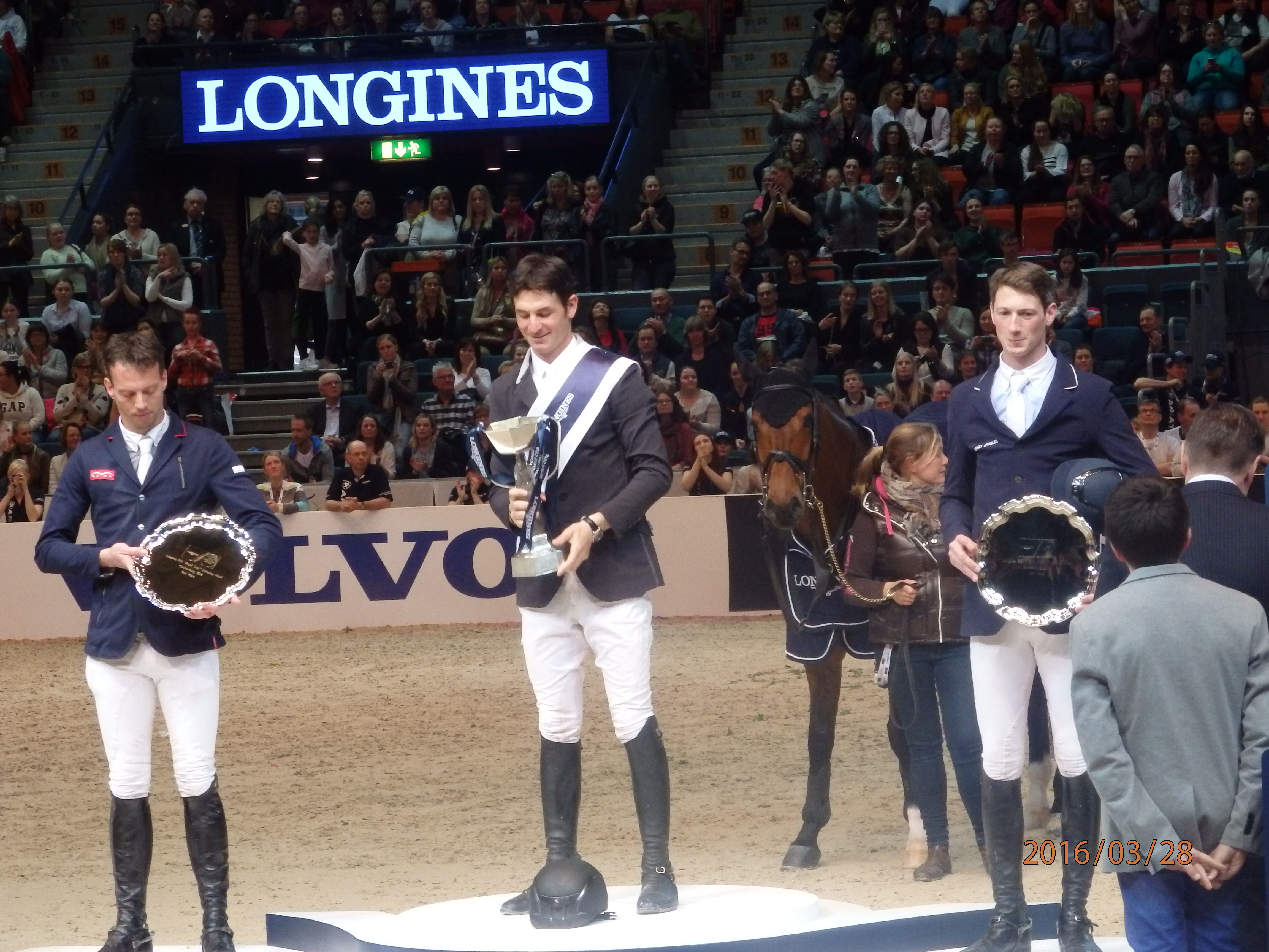 Seierspallen Verdenscupfinalen i sprangridning